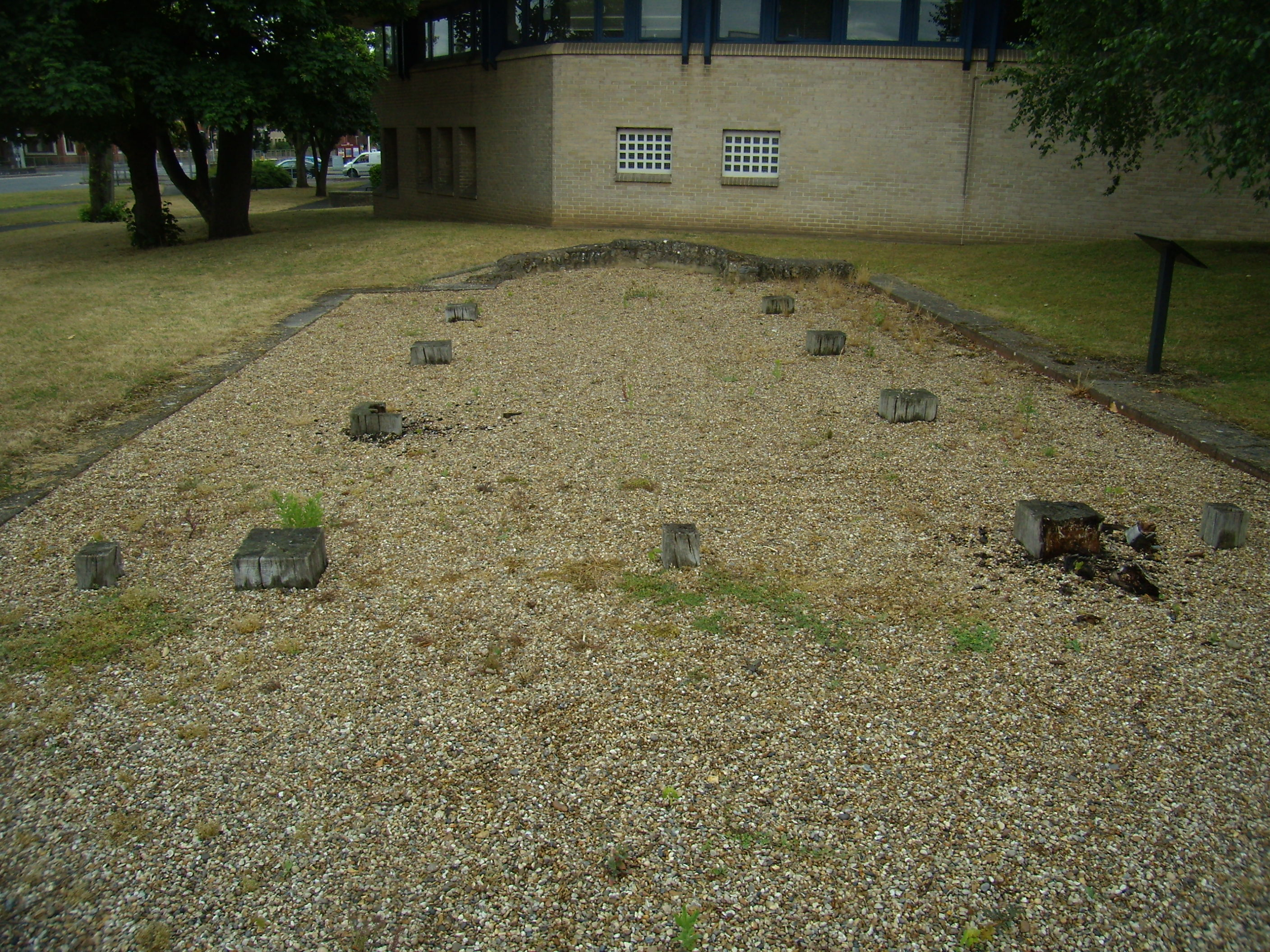 Remains of Ancient church, Camulodunum (modern Colchester), neat Butt Road